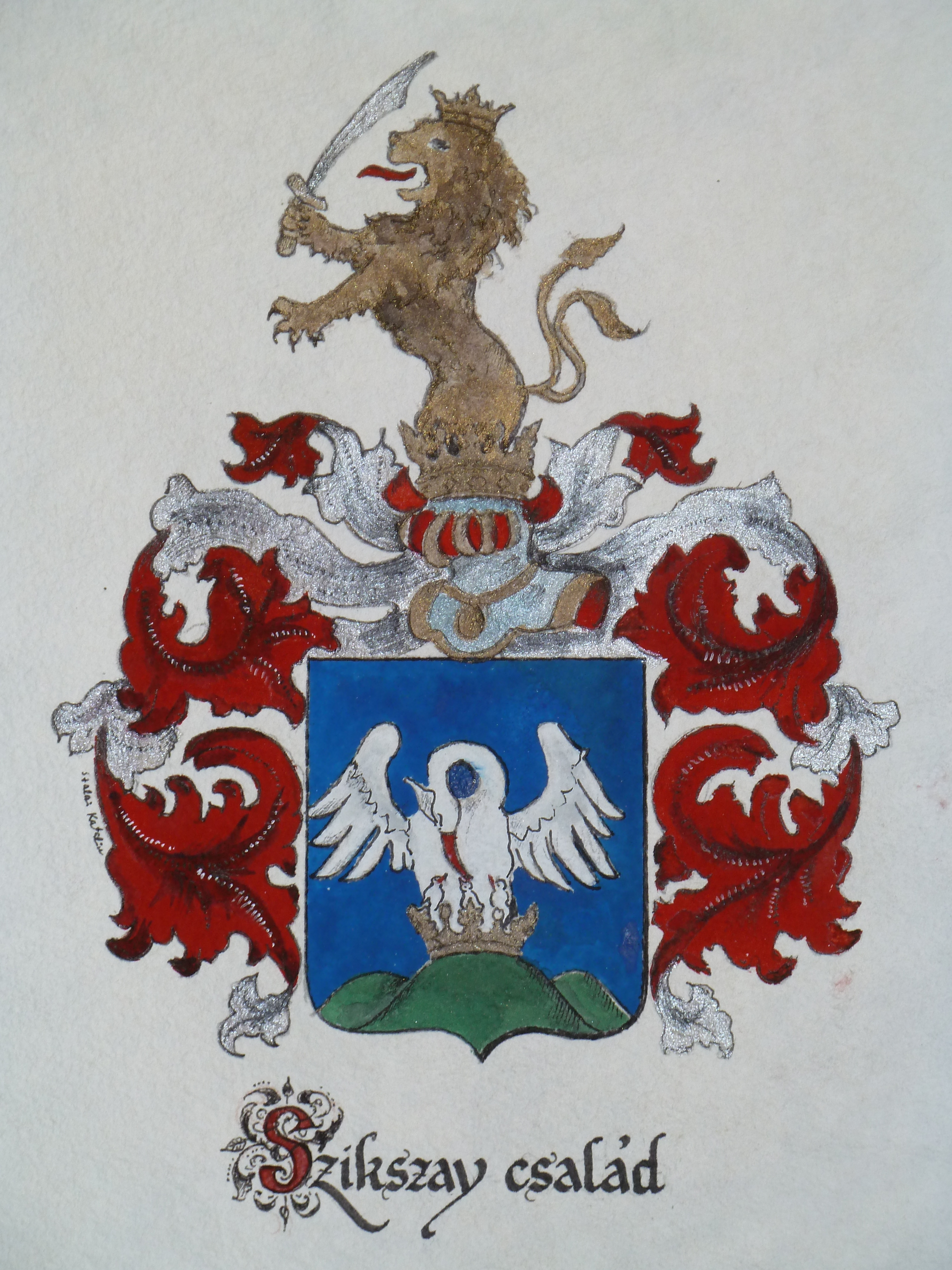 The coat-of-arms of the family Szikszay of Szikszó and Debrecen (készítette: Szalai Katalin)